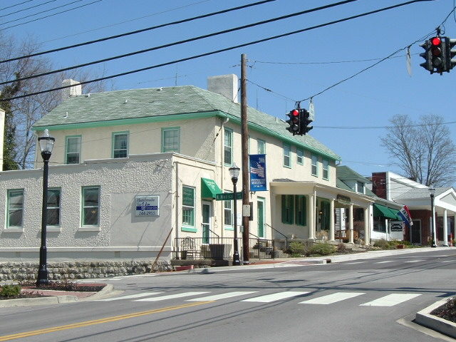 Madison & Main LOUKY